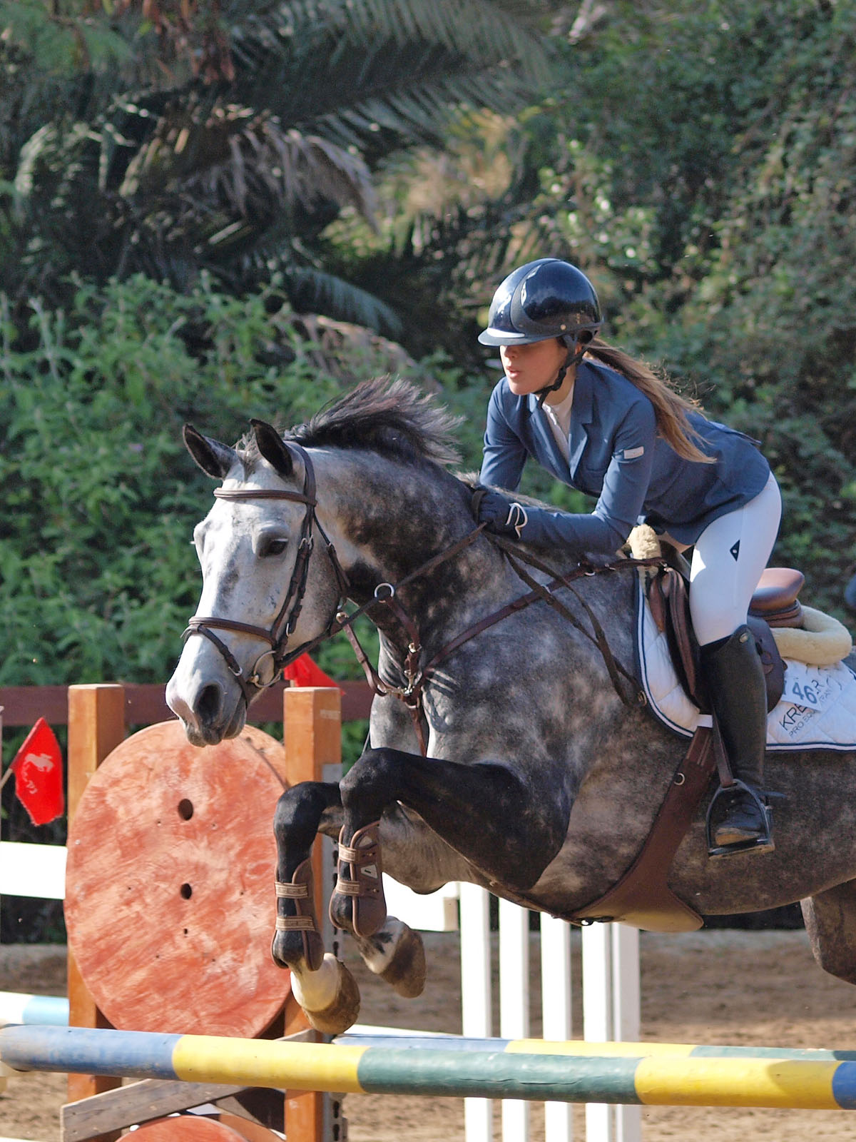 Show Jumping Competition 2014